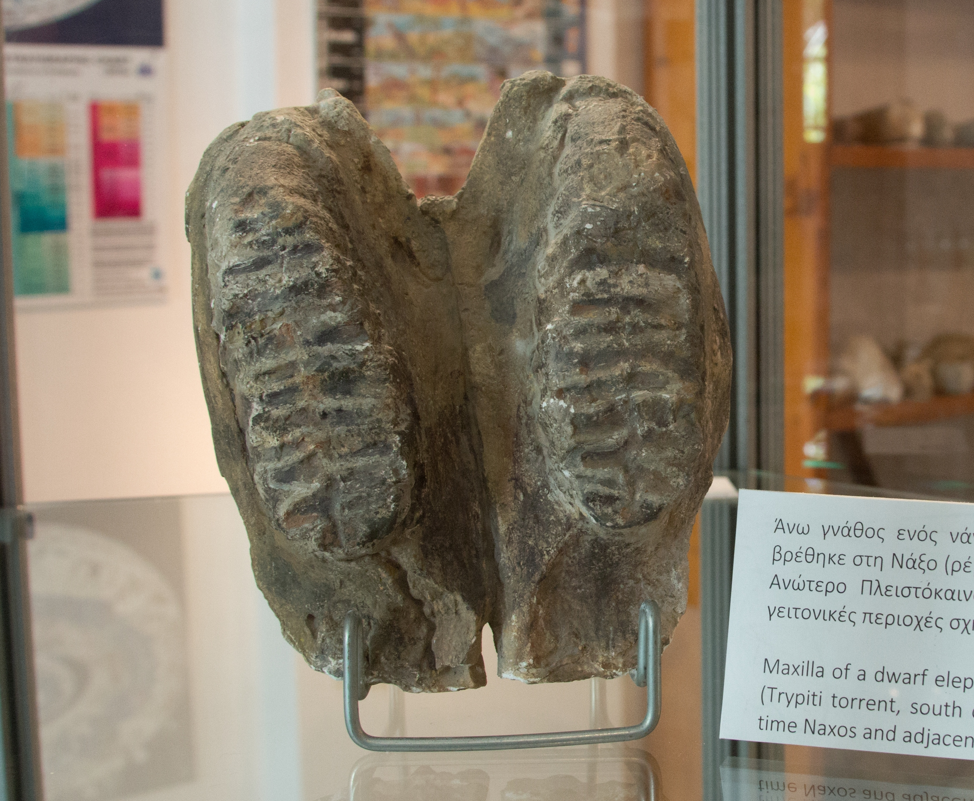 Maxilla of a dwarf elephant (Palaeoloxodon lomolinoi) found in Naxos (Trypiti torrent, south of Moutsouna). Late Pleistocene.